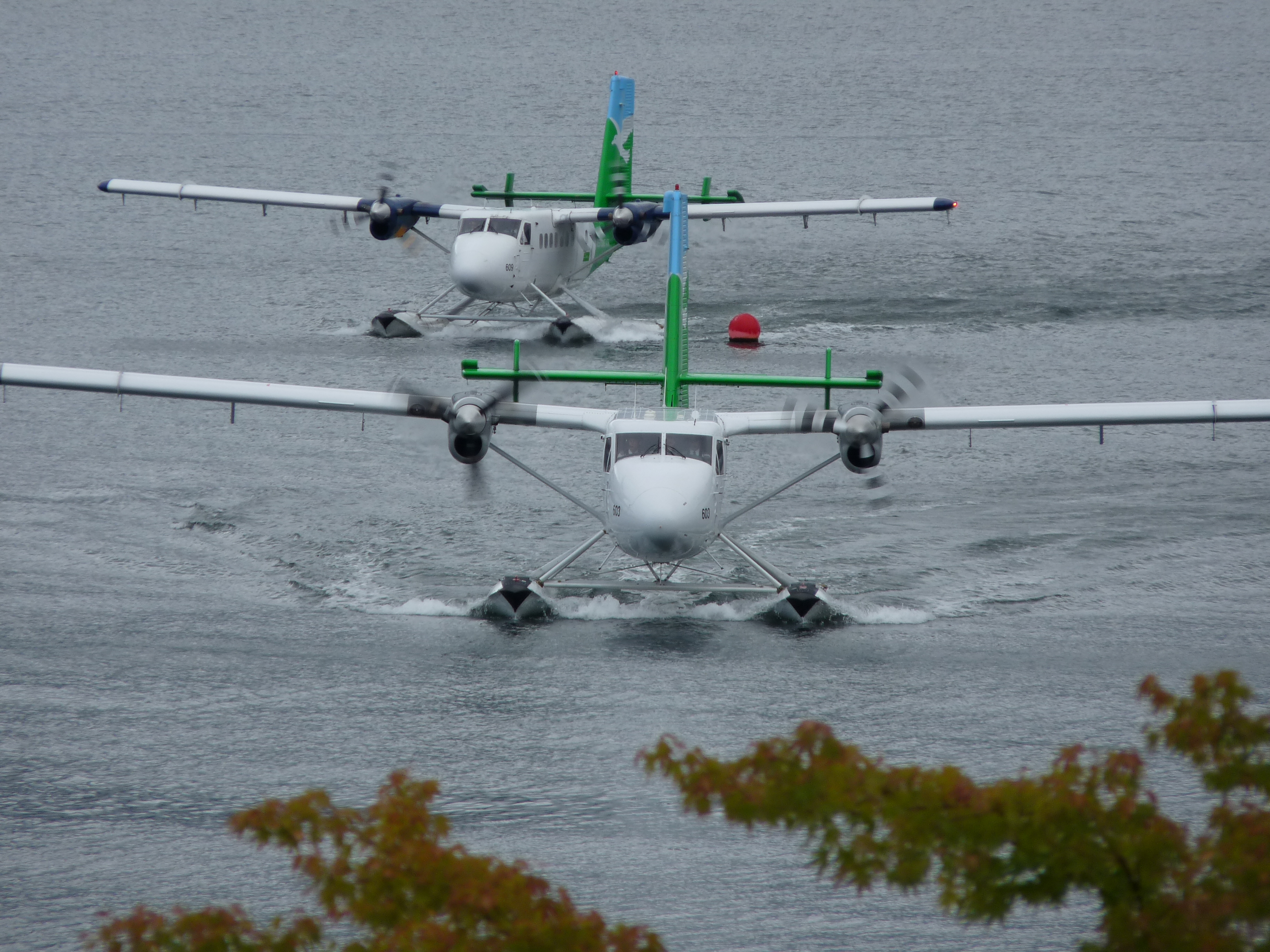 Sea Planes in Vancouver